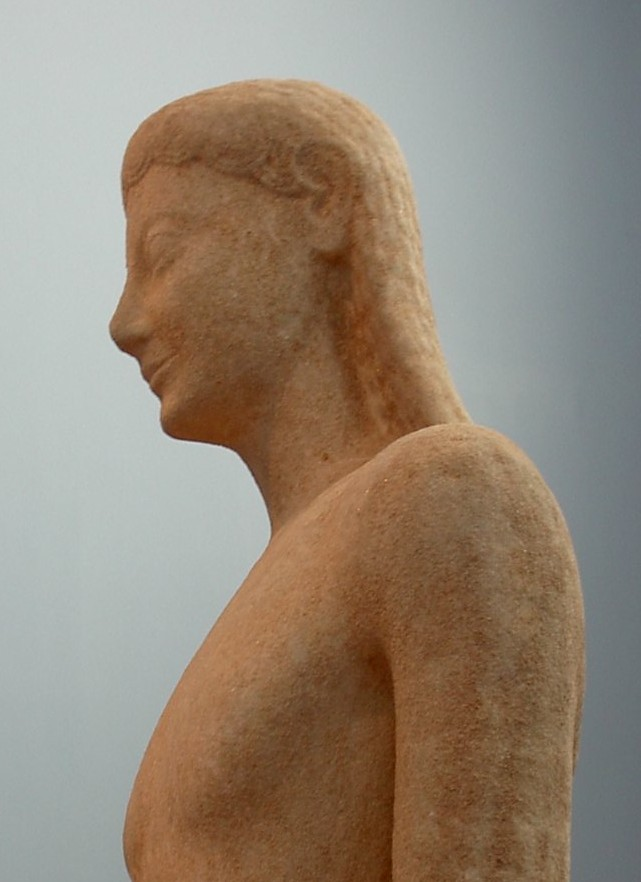 Kouros, Athens Archaeological Museum.